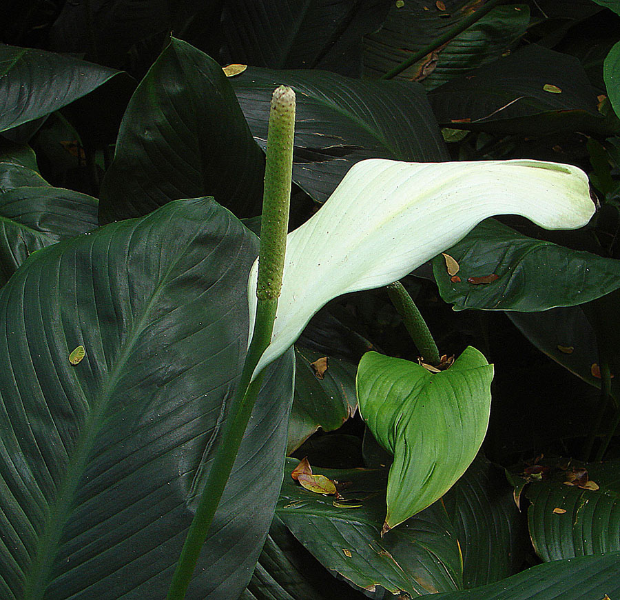 Native to the Guiana Shield, here in a Bogota garden. In context at